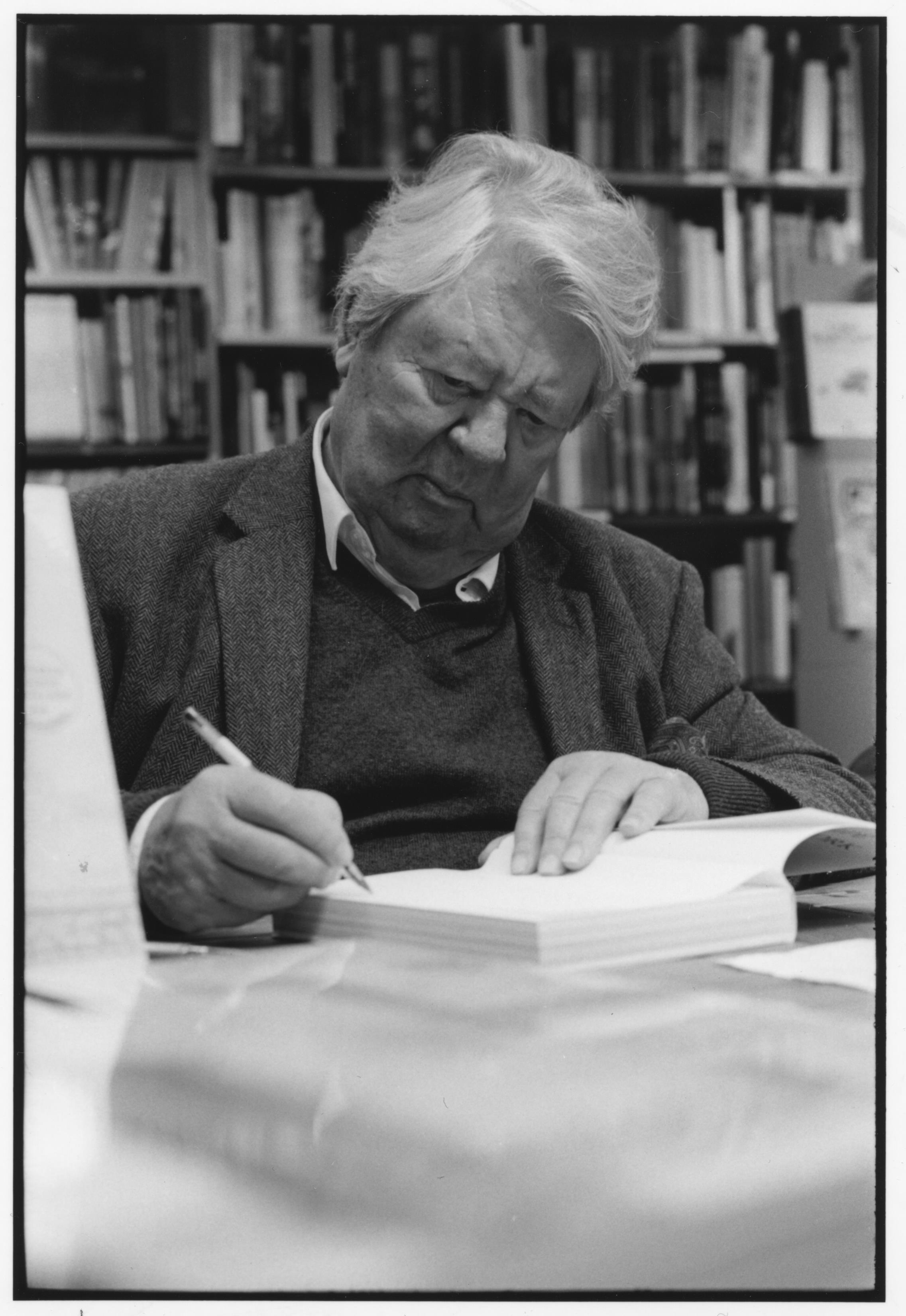 Jean-Jacques Sempé in 2016 by Olivier Meyer